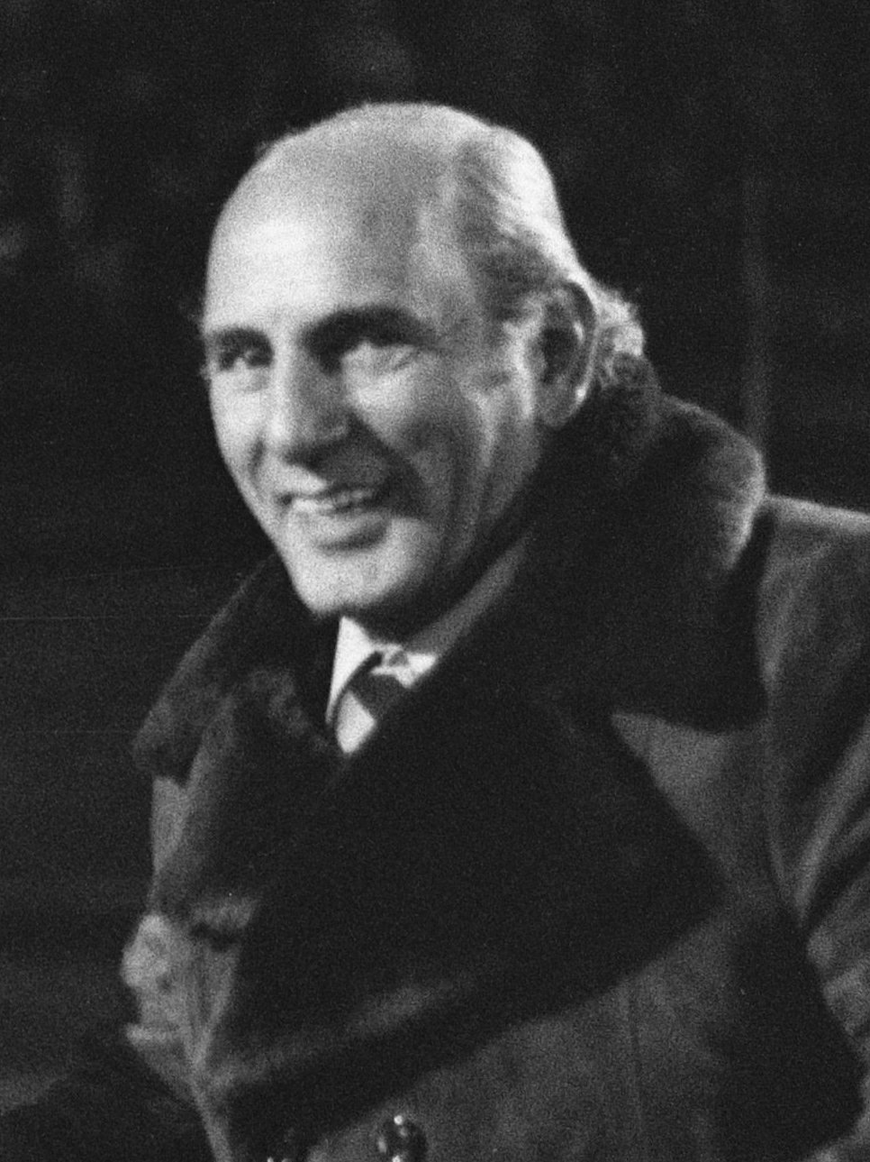 Italian coach Fulvio Bernardini before the match of the national football teams of the Netherlands and Italy (3-1), Rotterdam, 20 November 1974